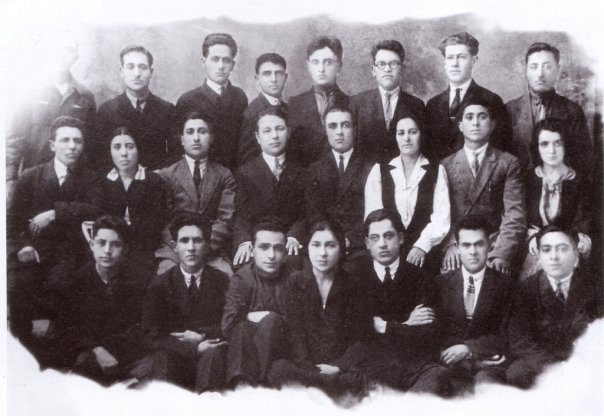 Mushfig with students